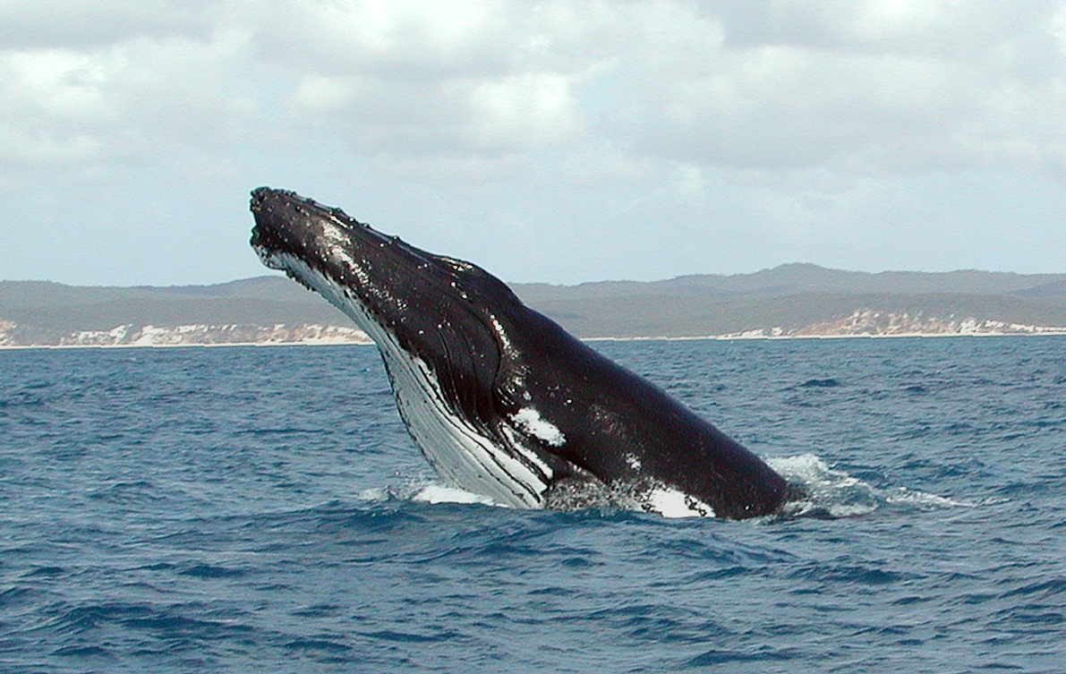 Humpback Whale, Platypus Bay, Queensland, Australia